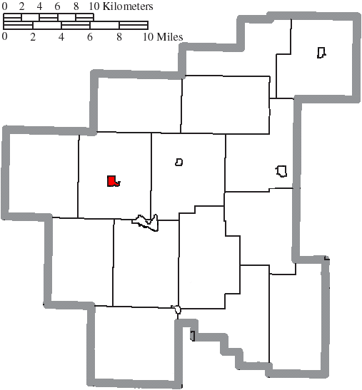 Map of the municipal and township boundaries of Noble County, Ohio, United States, as of the 2000 census, with the location of the village of Belle Valley highlighted. Township borders are shown only in unincorporated areas in order to differentiate incorporated and unincorporated areas more clearly.